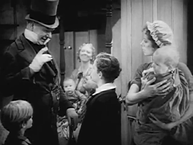 Screen capture from the trailer of David Copperfield (1935 film). Here Mr. Micawber (played by W. C. Fields) addresses young David Copperfield (Freddie Bartholomew).